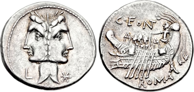 C. Fonteius 114-113 BC. AR Denarius (20mm, 3.86 g, 4h). Rome mint. Laureate, janiform head of Fons (Fontus); L to left, mark of value to right, ••••• below / Galley left with five oars shown, shrines at bow and stern, three figures (soldiers?) left, gubernator at stern. Crawford 290/1; Sydenham 555; Fonteia 1. Choice EF, toned, light graffiti under tone. Exceptional for issue. Ex Lanz 146 (25 May 2009), lot 306.